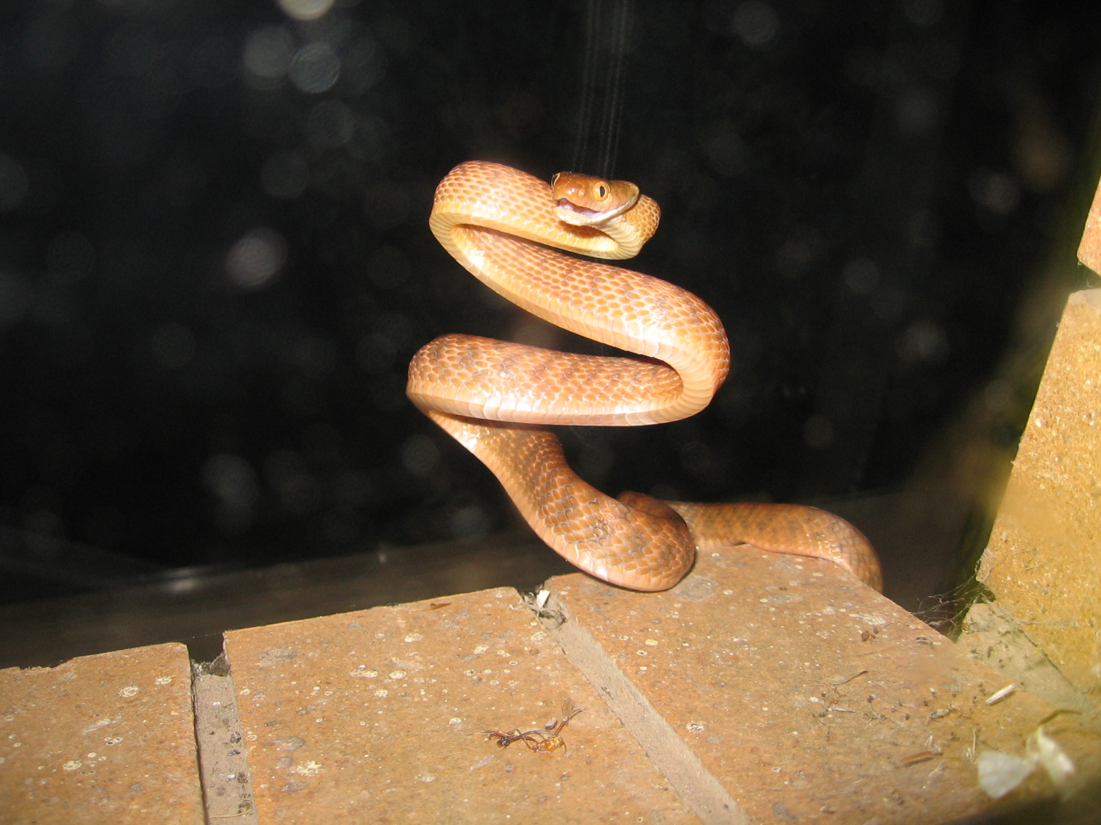 A brown tree snake (Boiga irregularis) in its characteristic coiled posture, photographed in Queensland.